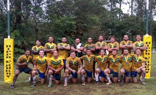 Foto Brasil Rugby League